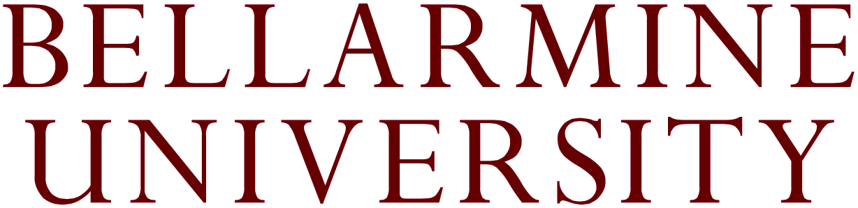 Logo of Bellarmine University